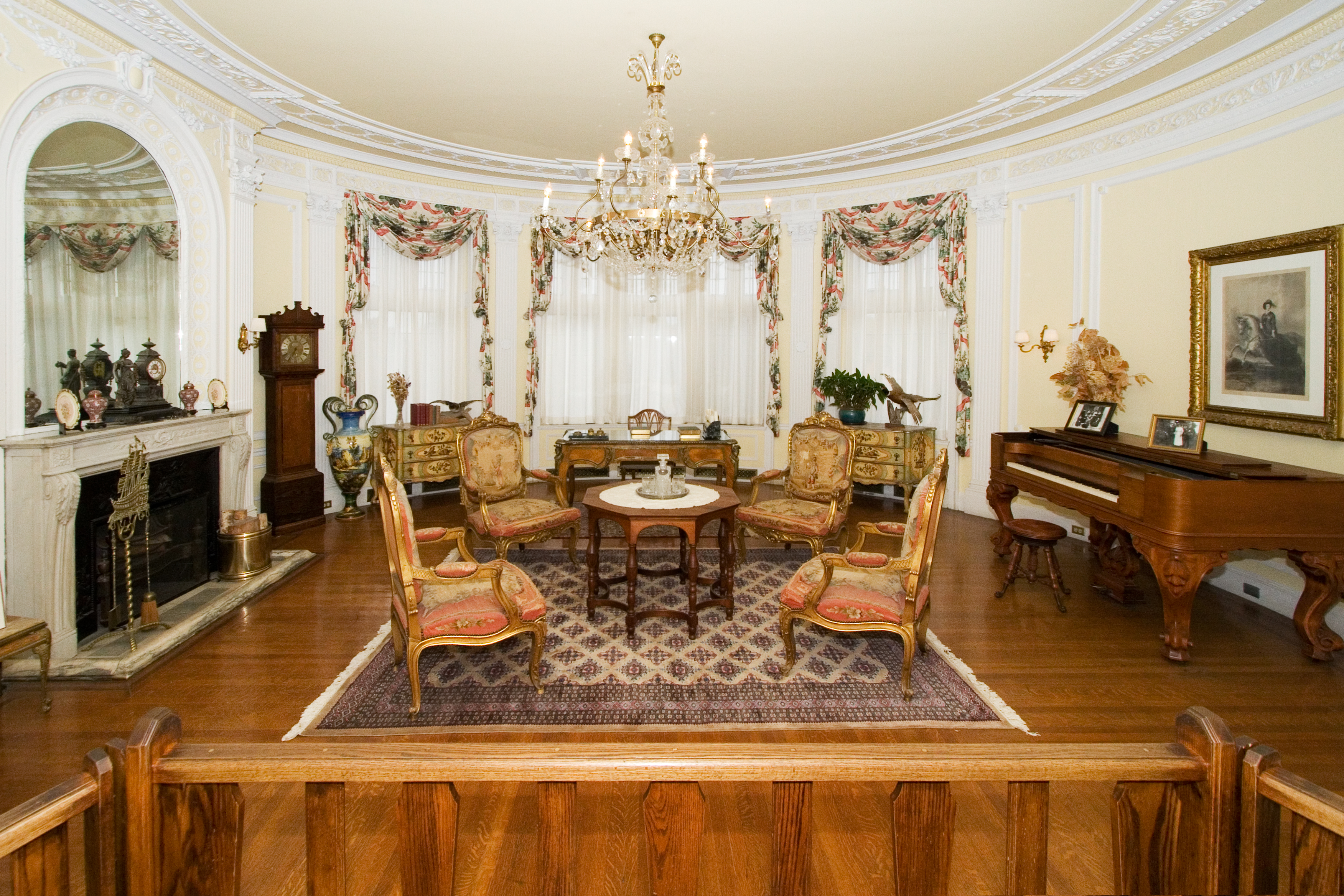 The Round Room at Casa Loma in Toronto, Canada. This Adams-style room is designed to fit the space beneath the tower. Features of this room include curved, custom-made doors and windows.